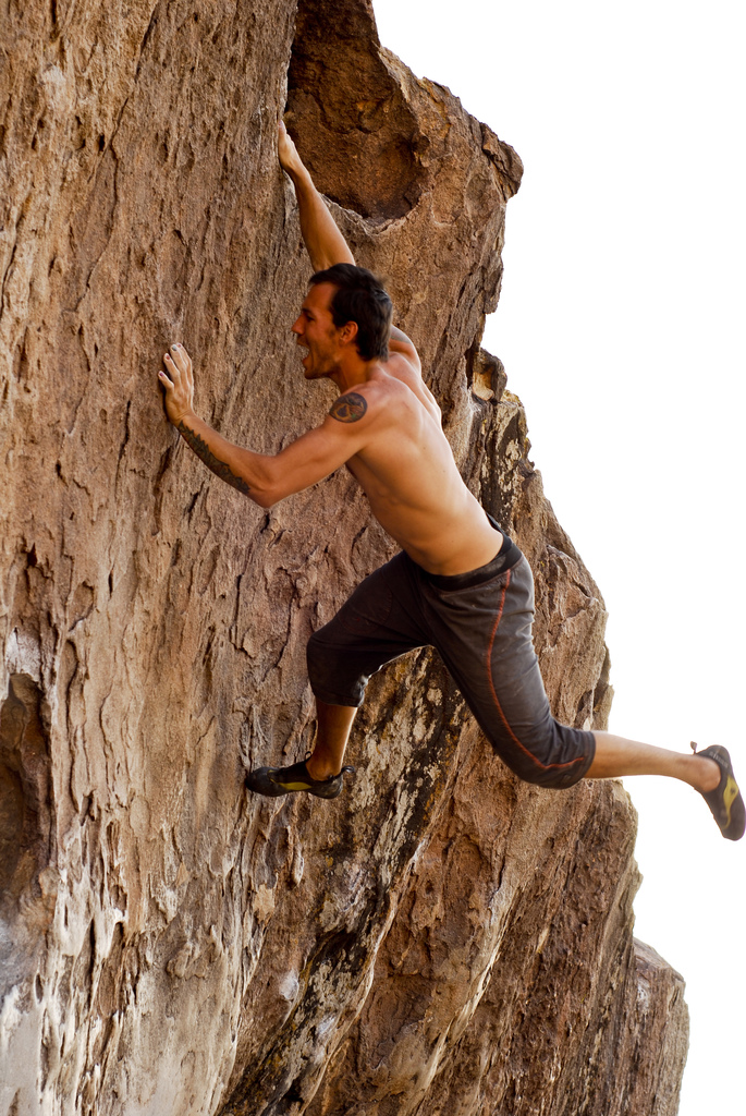 Hueco_Tanks_State_Historic_Site: North_Mountain: Mushroom_Boulder. A rock climber doing a dyno move